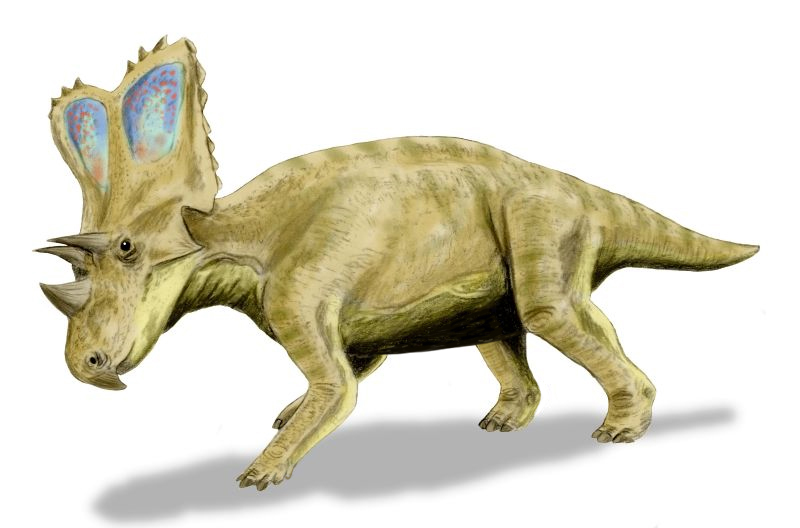 Chasmosaurus belli, a ceratopsian from the Late Cretaceous of North America, pencil drawing, digital coloring